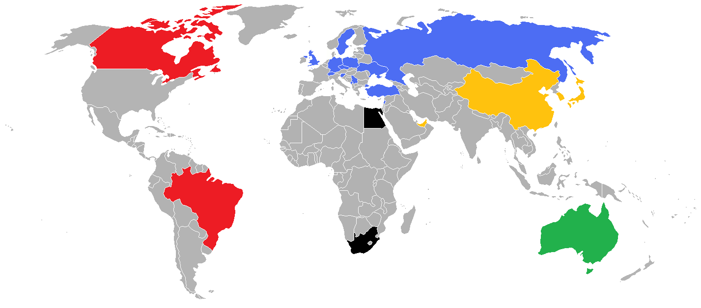 Men's_volleyball_-_universiade_2009_-_teams